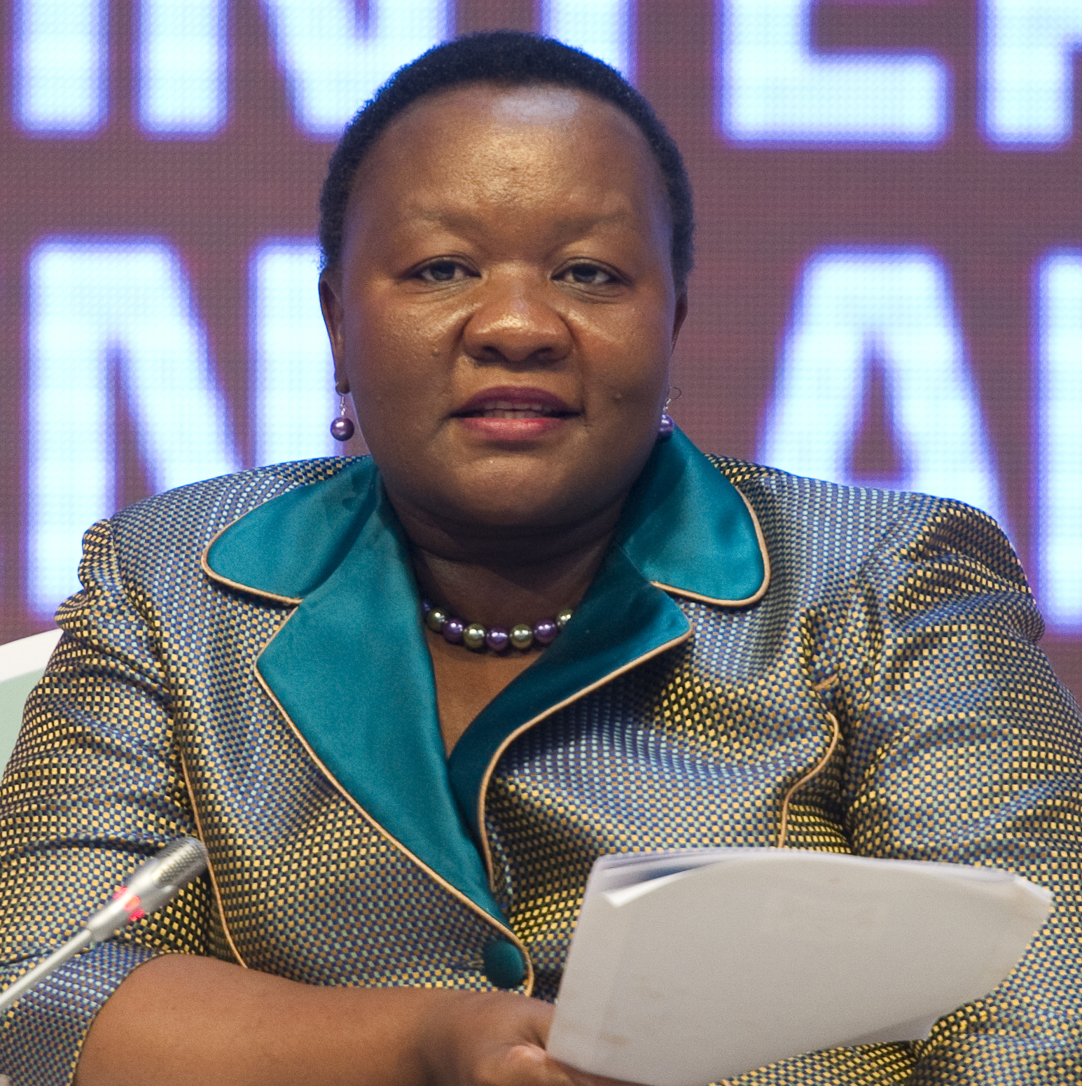 UNCTAD XIII Round Table 4: Addressing persistent and emerging development challenges as related to their implications for trade and development and interrelated issues in the areas of finance, technology, investment and sustainable development.